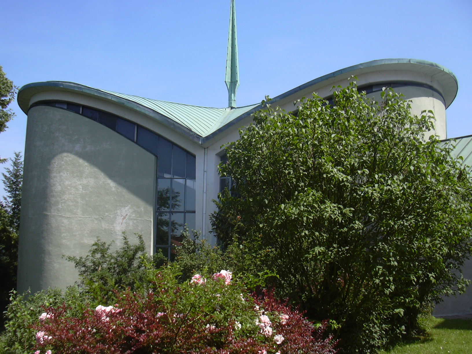 Pilgrims' church St. Mary in the Rough Wind, extension building by Hans Schädel 1955-57, Alzenau/Kälberau, Bavaria/Germany